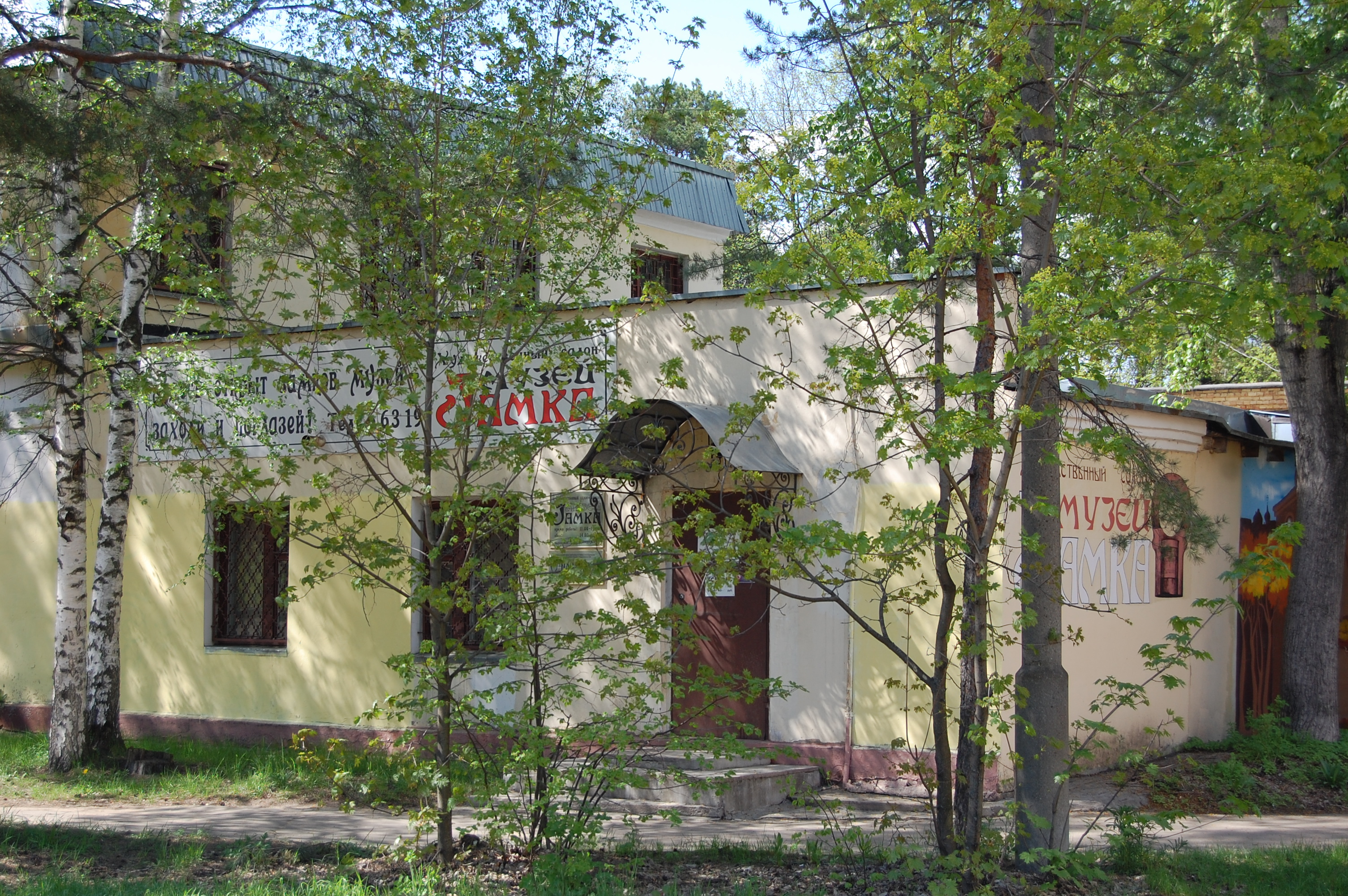 Lock museum in Dubna, Moscow oblast